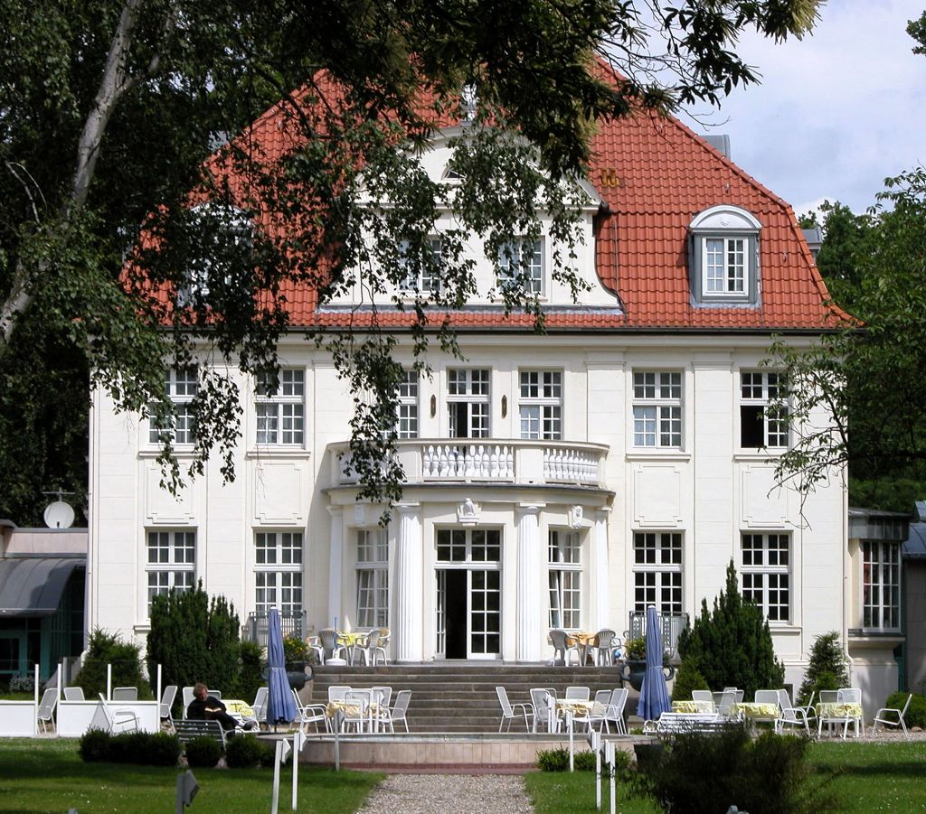 Zucherberg-Clinic in Brunswick, Germany.